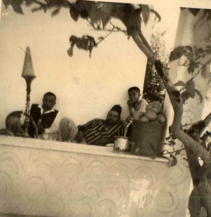 Resting after a work day in Elyakhin, chowing Gath and smoking Houka